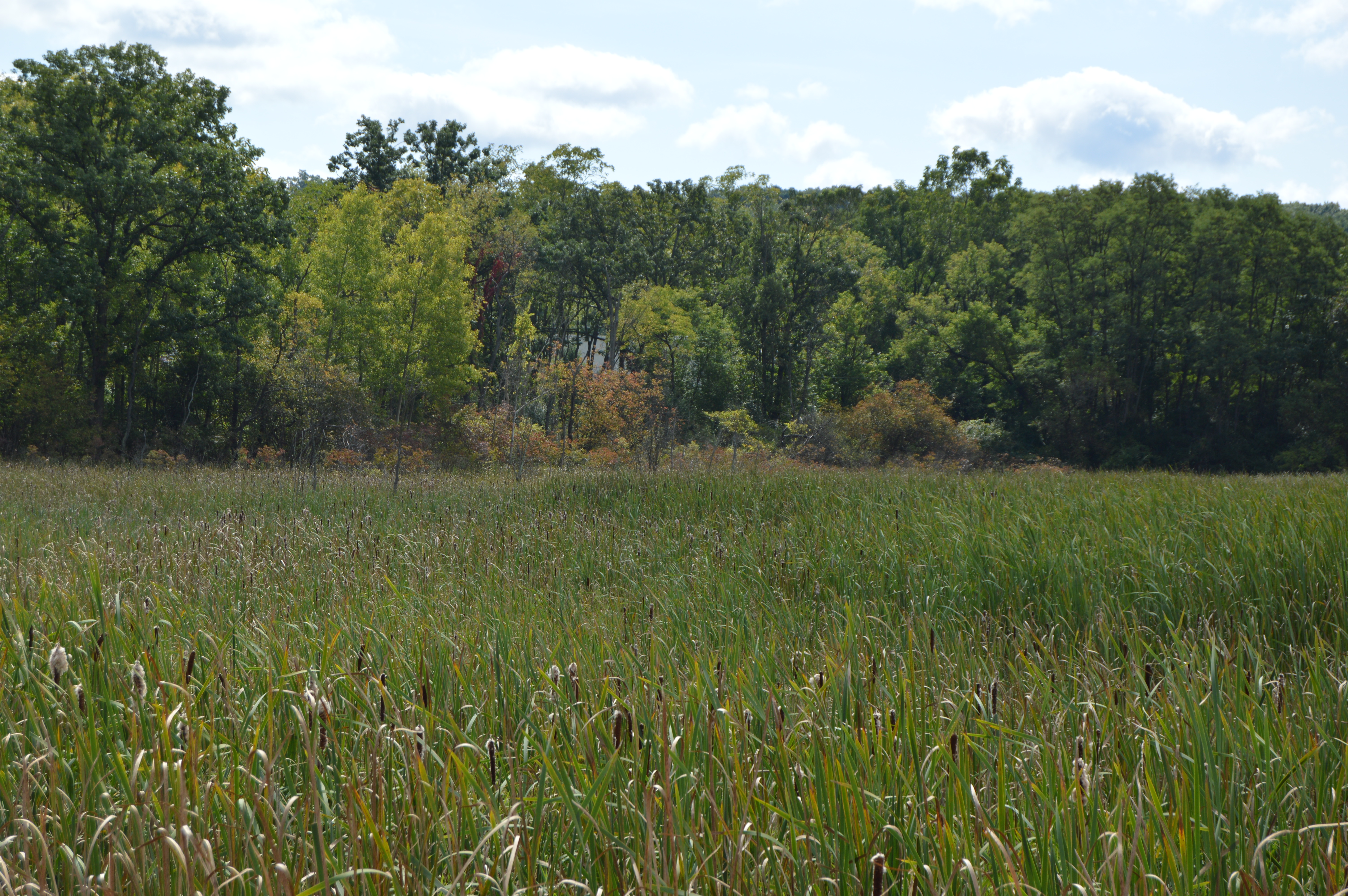 Overview of a marsh, looking south, at the Millbrook Marsh Nature Center just northeast of State College in College Township, Centre County, Pennsylvania, United States. Land in the distance, near the trees, is part of the Houserville Site, a significant archaeological site that is listed on the National Register of Historic Places.